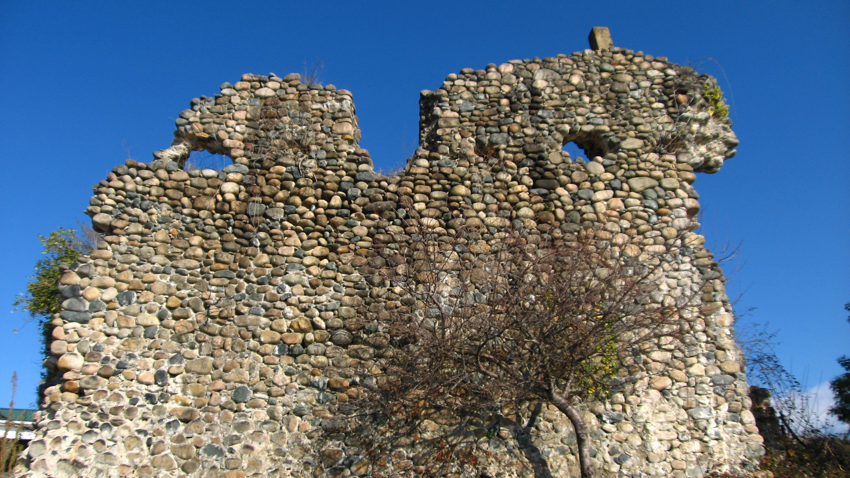 The first tower of the Great Abkhazian Wall near the mouth of Kelasuri river